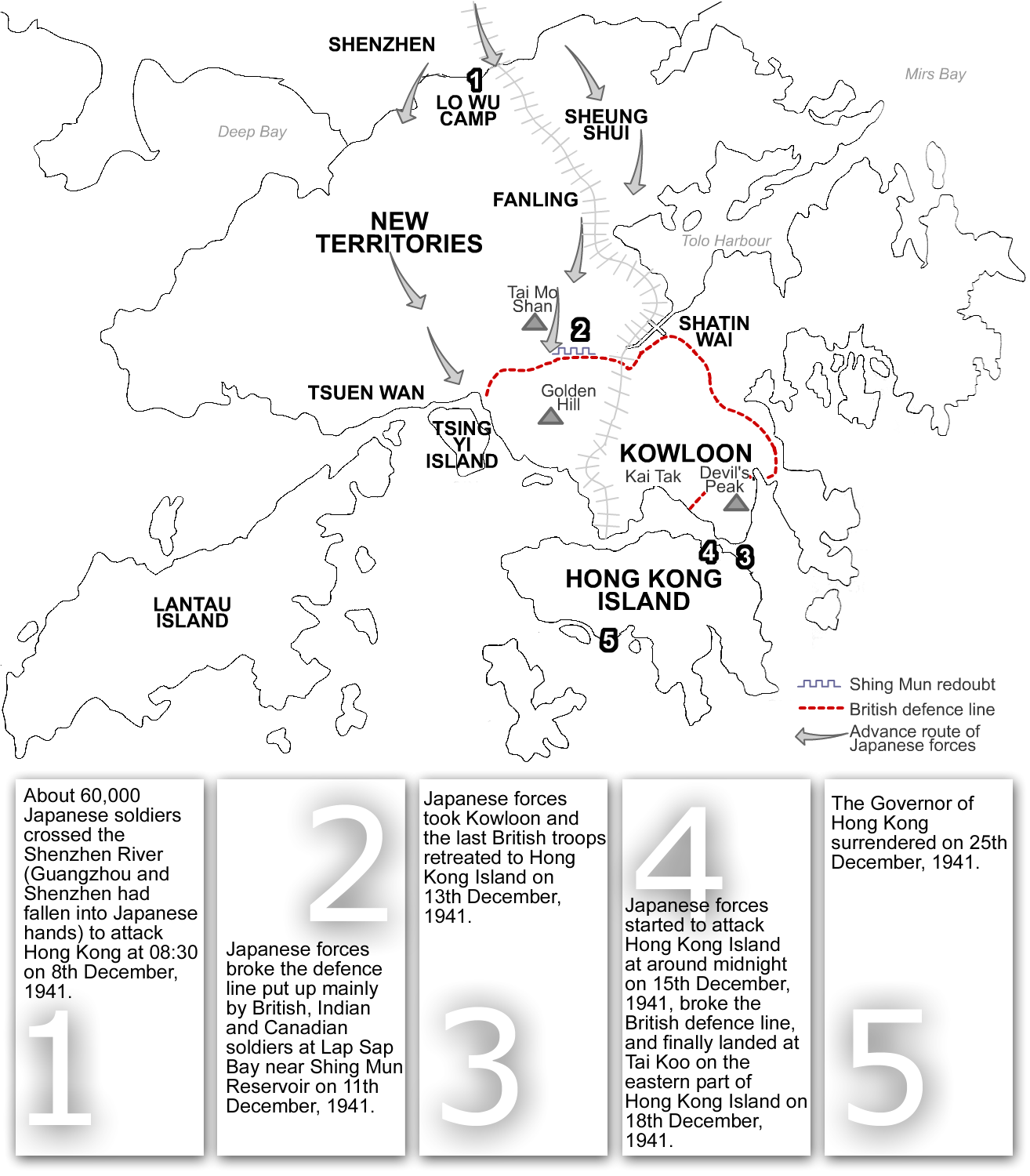 Drawn by Jerry Crimson Mann 16:10, 22 July 2005 (UTC).